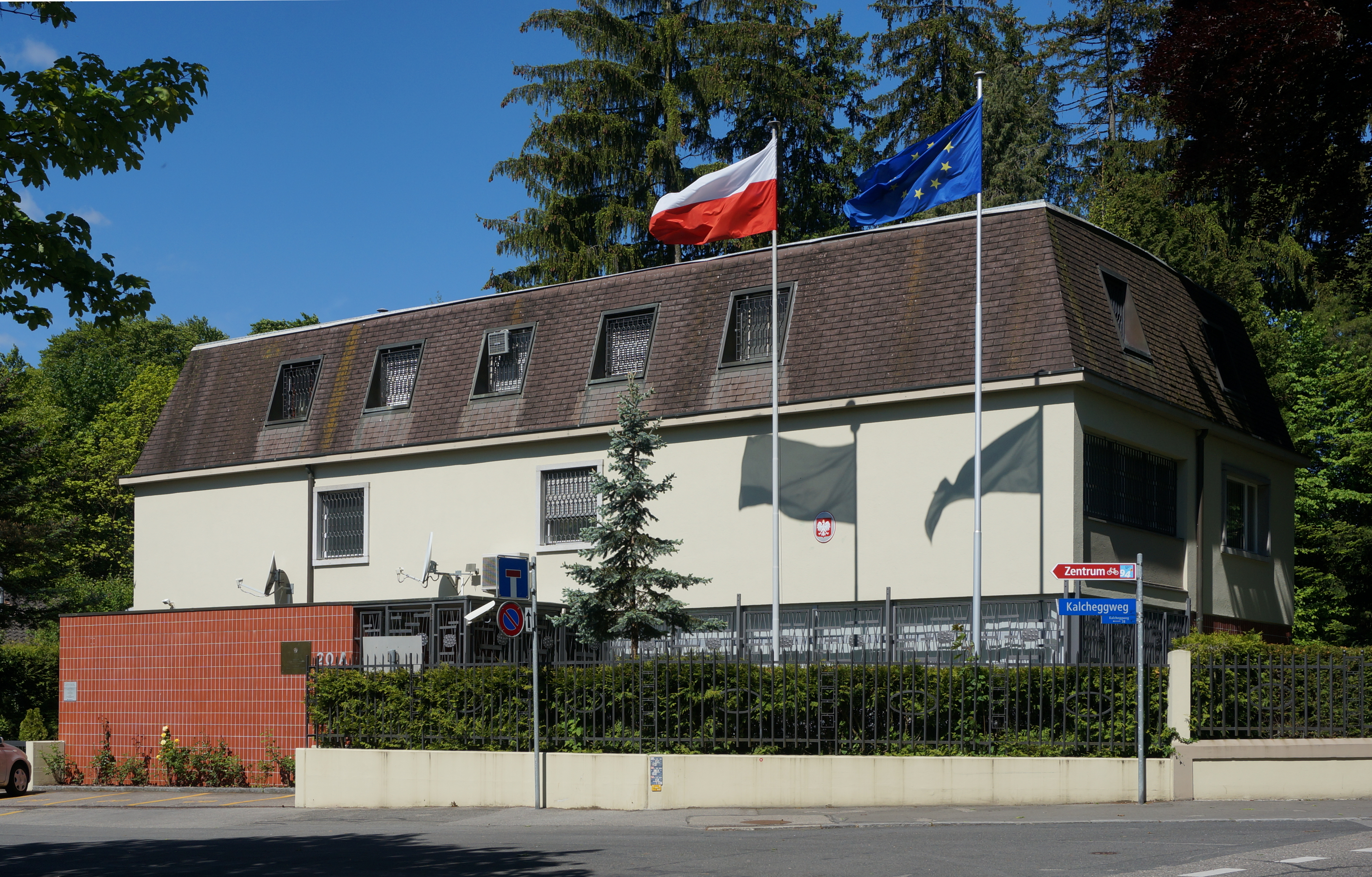 Bern, Elfenstrasse 20A. Polish Embassy in Bern, Consular Service.